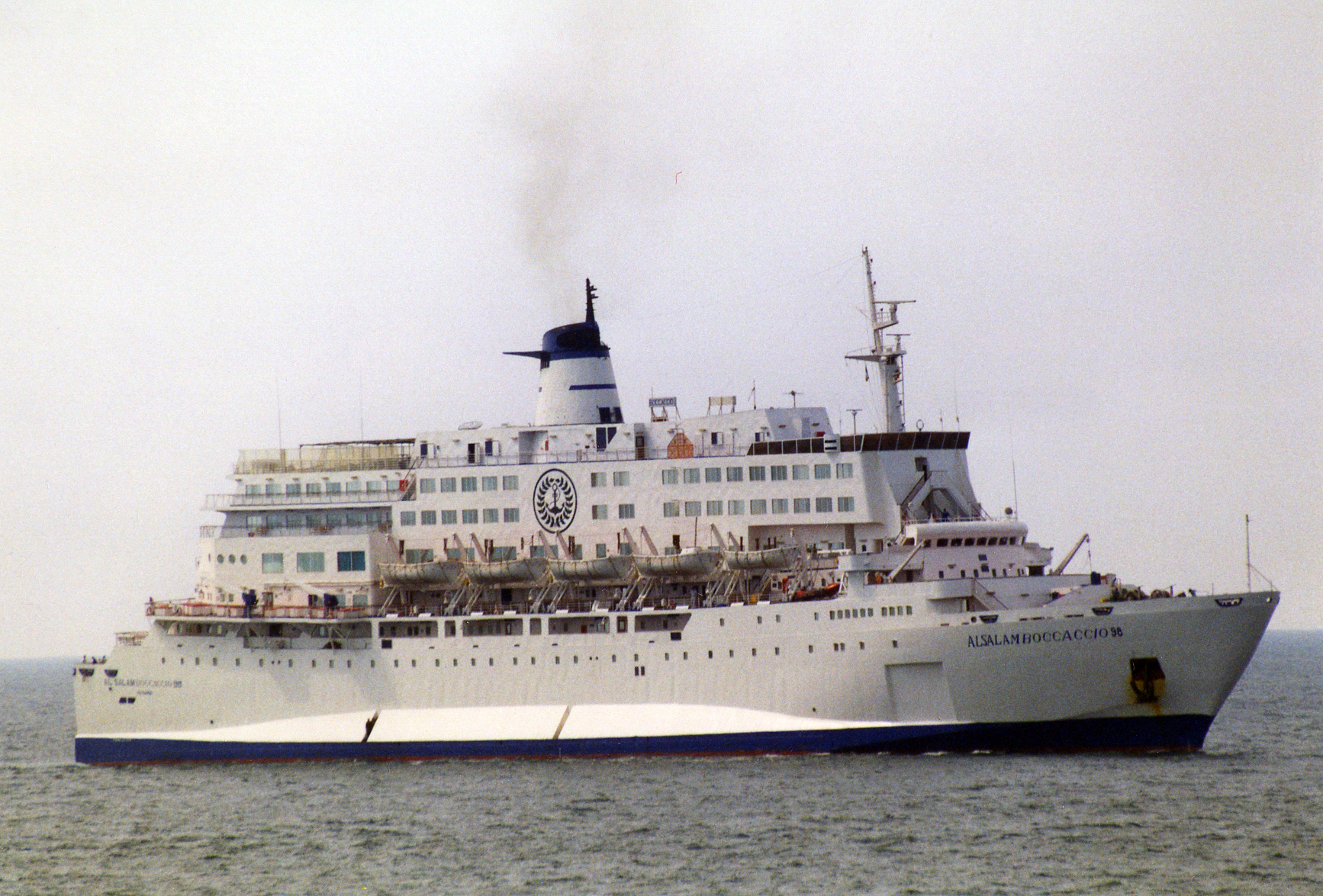 The ferry Al-Salam Boccaccio 98 arriving at Genoa on July 15, 2001.